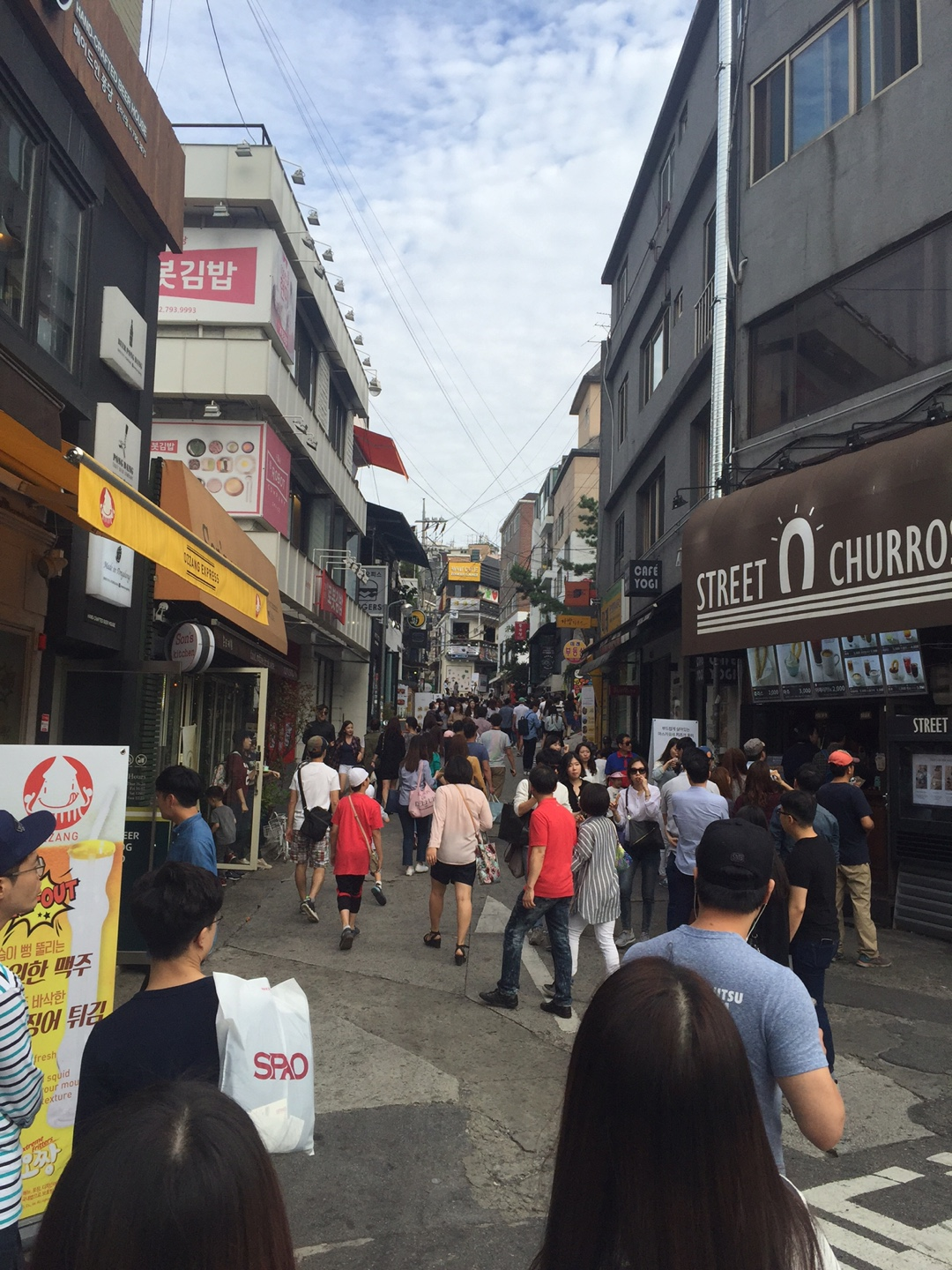 Itaewon Gyeongnidan-gil